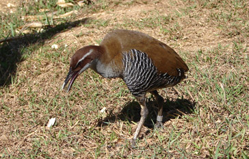 Gallirallus owstoni on Guam